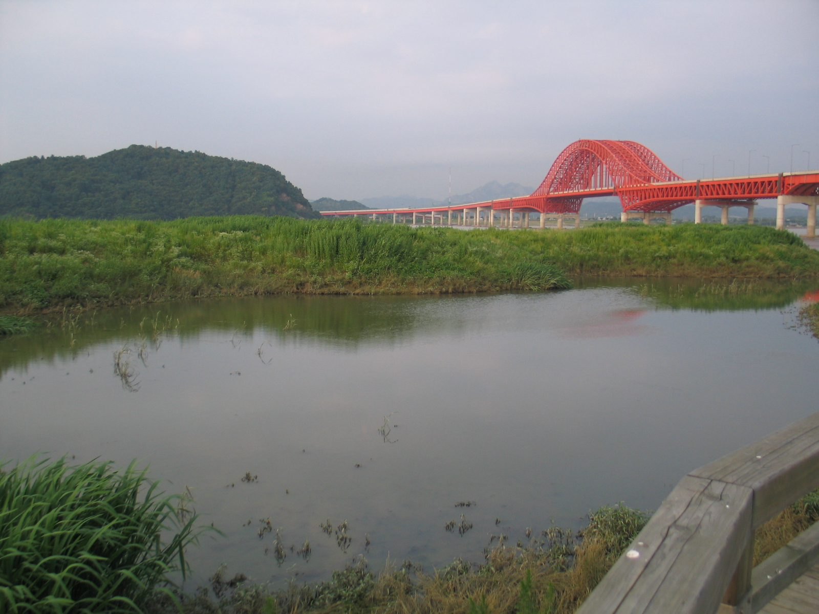 Gangseo Wetland Ecological Park Near Bangwha Bridge